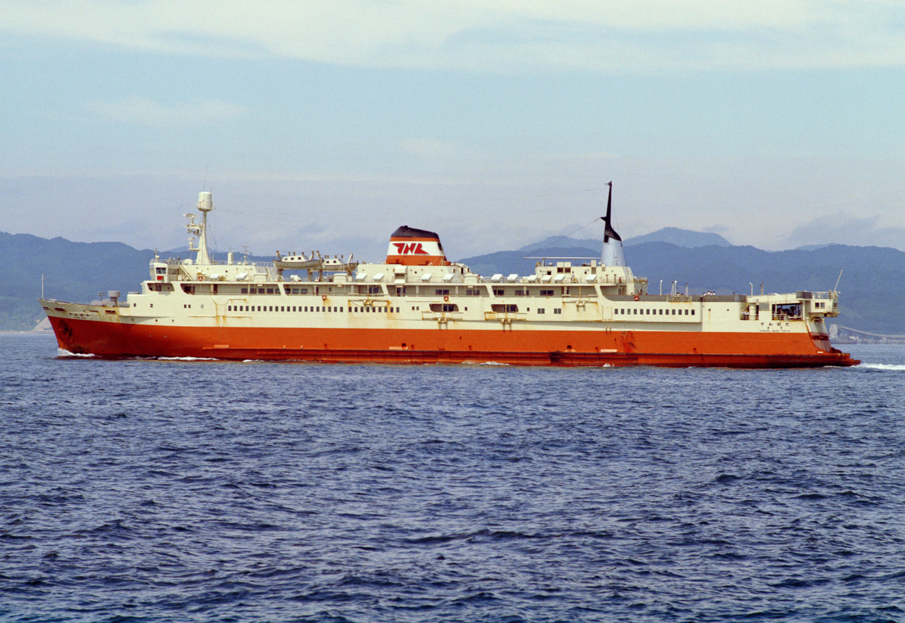 MS.TOWADA MARU2 leaving from Hakodate port as trip No.154